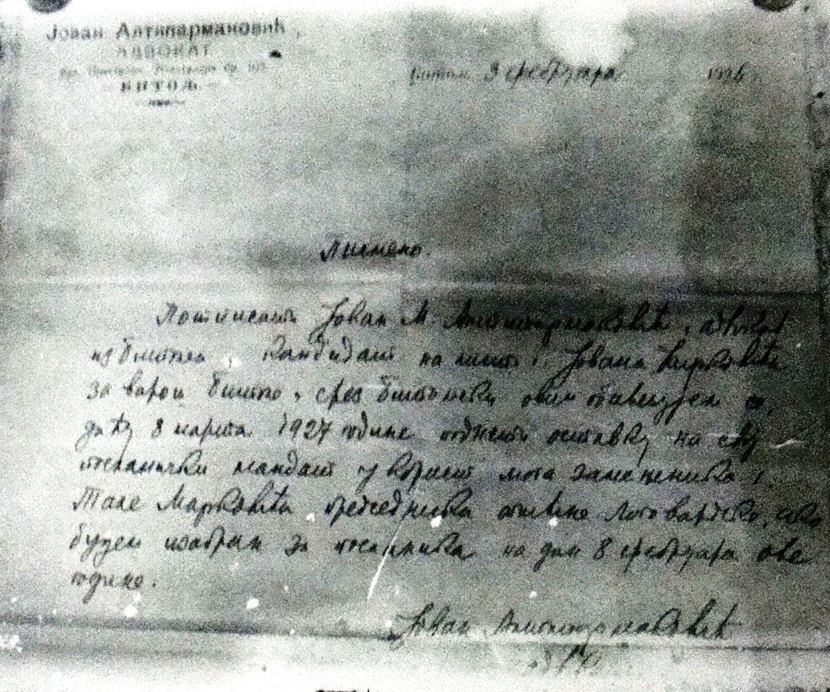 Facsimile of the election of Jovan Altiparmak. Bitola 1925 This media file is produced by Wikipedian in Residence in Category:Wikipedian in Residence at DARM in 2016.